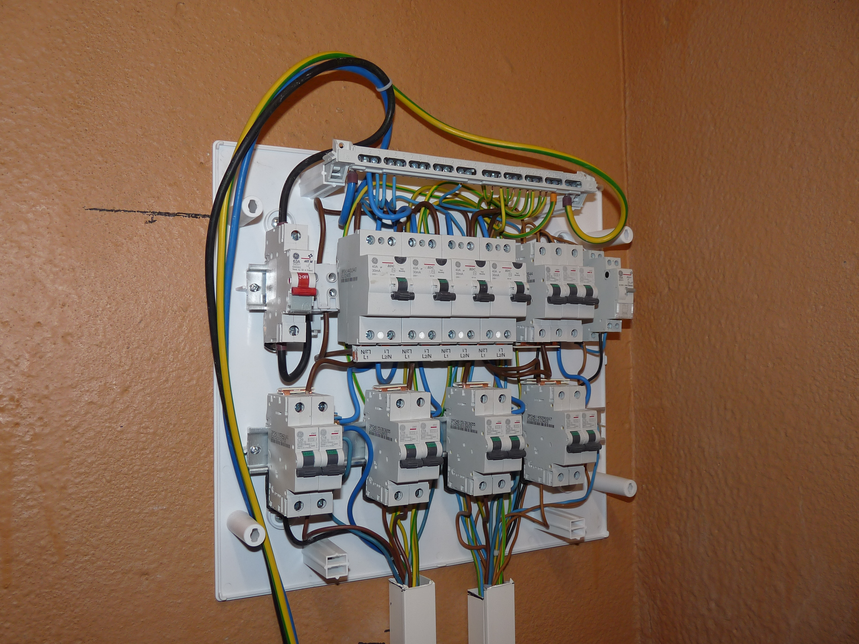 Step 4 - connect all of circuits to circuit breakers.